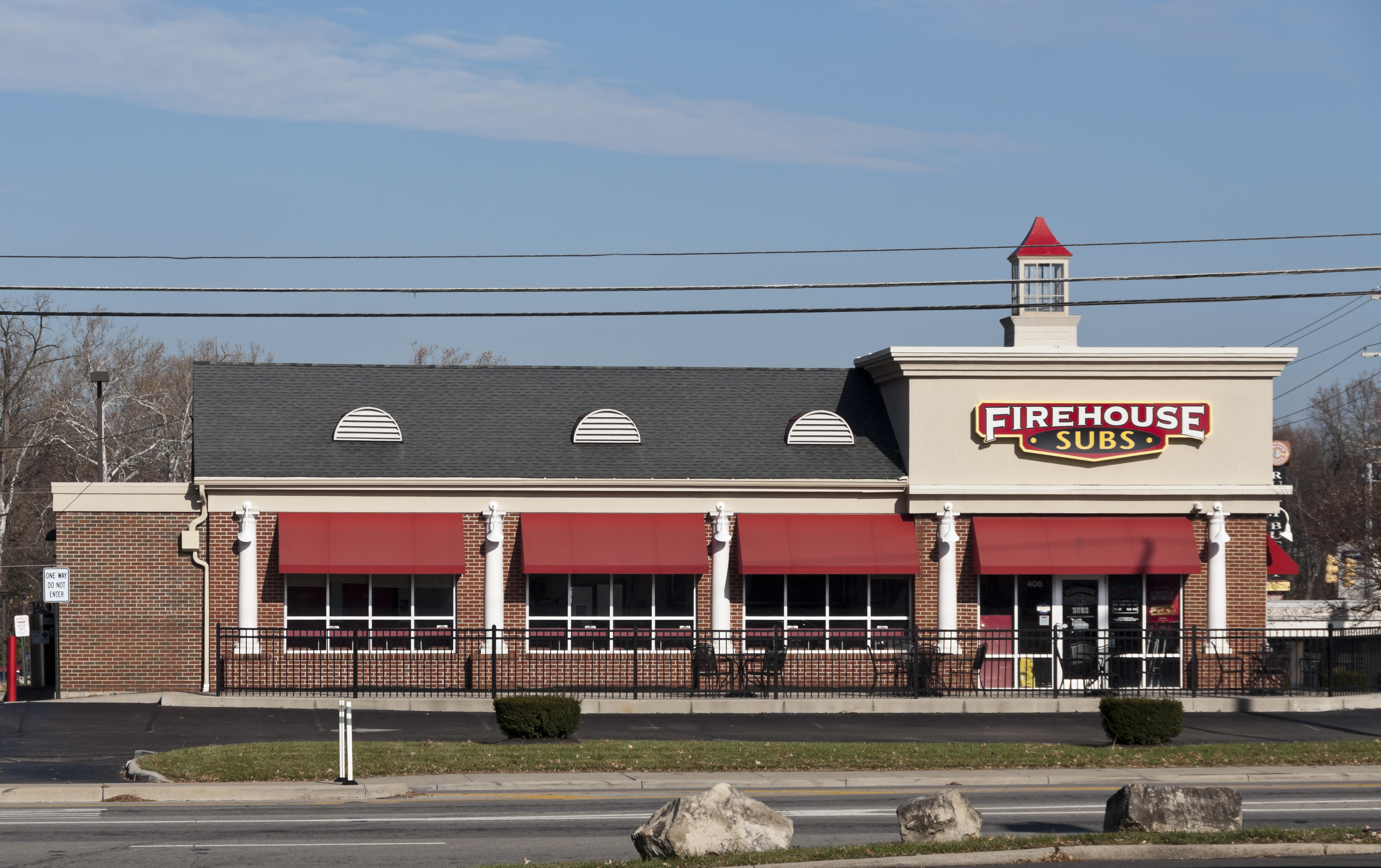 A typical Firehouse Subs located in Gahanna, Ohio. Firehouse Subs is a US-based, fast casual restaurant chain that specializes in hot subs.